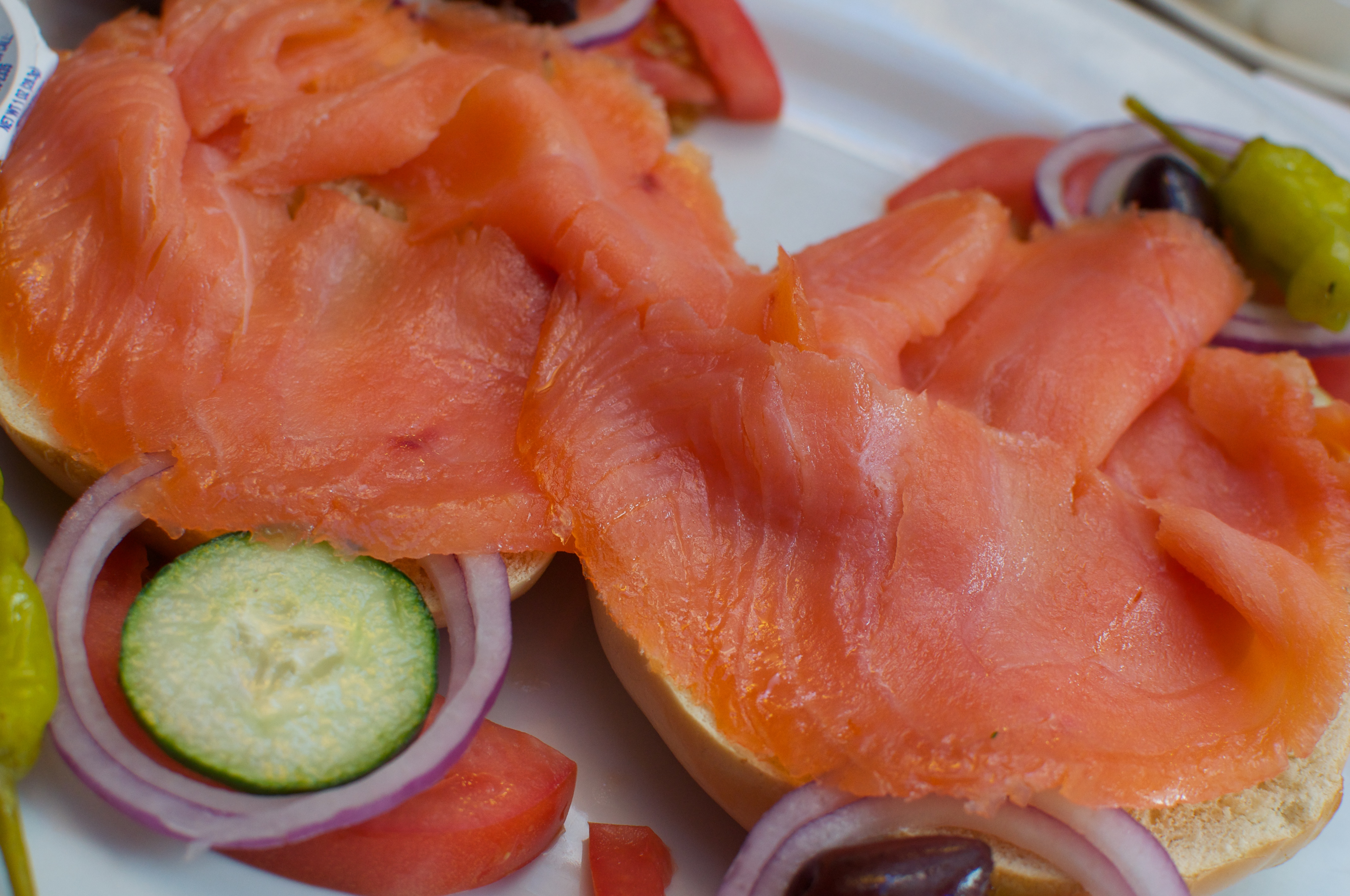 Bagel with lox, Atlanta Georgia.